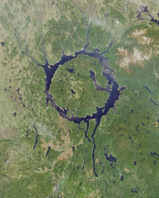 Manicouagan Reservoir with Île René-Levesseur. From Image:Manicouagan-EO.JPG.